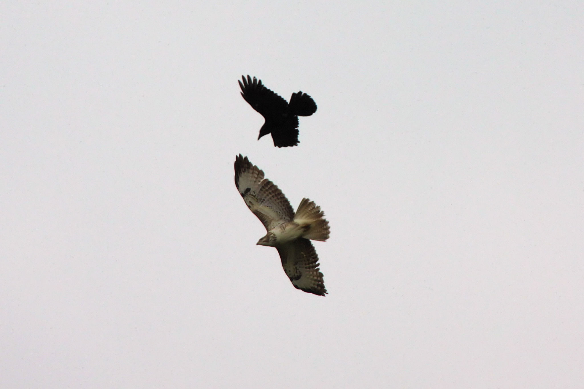 Whilst waiting for the Birds of Prey demonstration, we saw a crow going after a buzzard some way off in the distance.